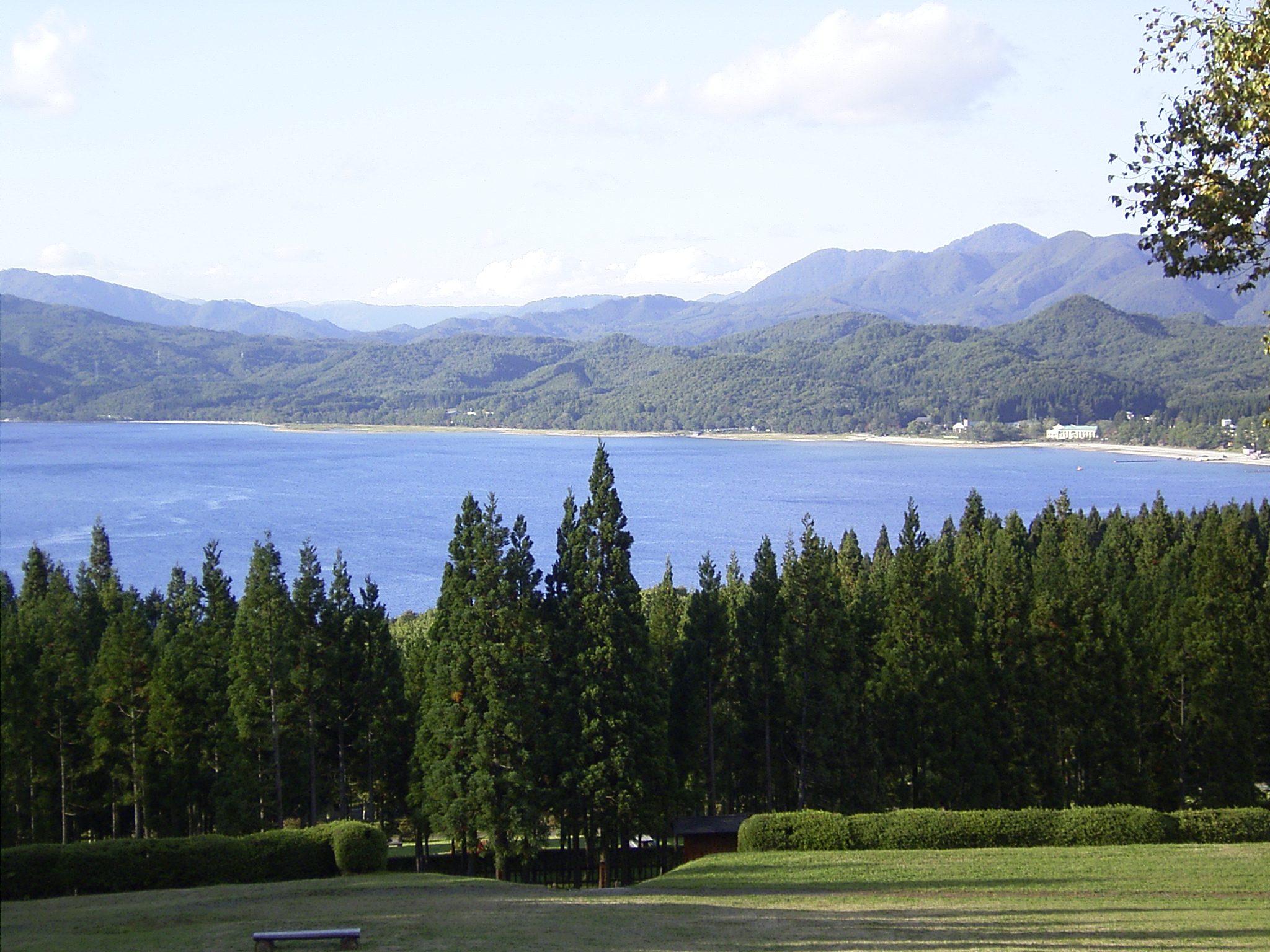 Lake Tazawa